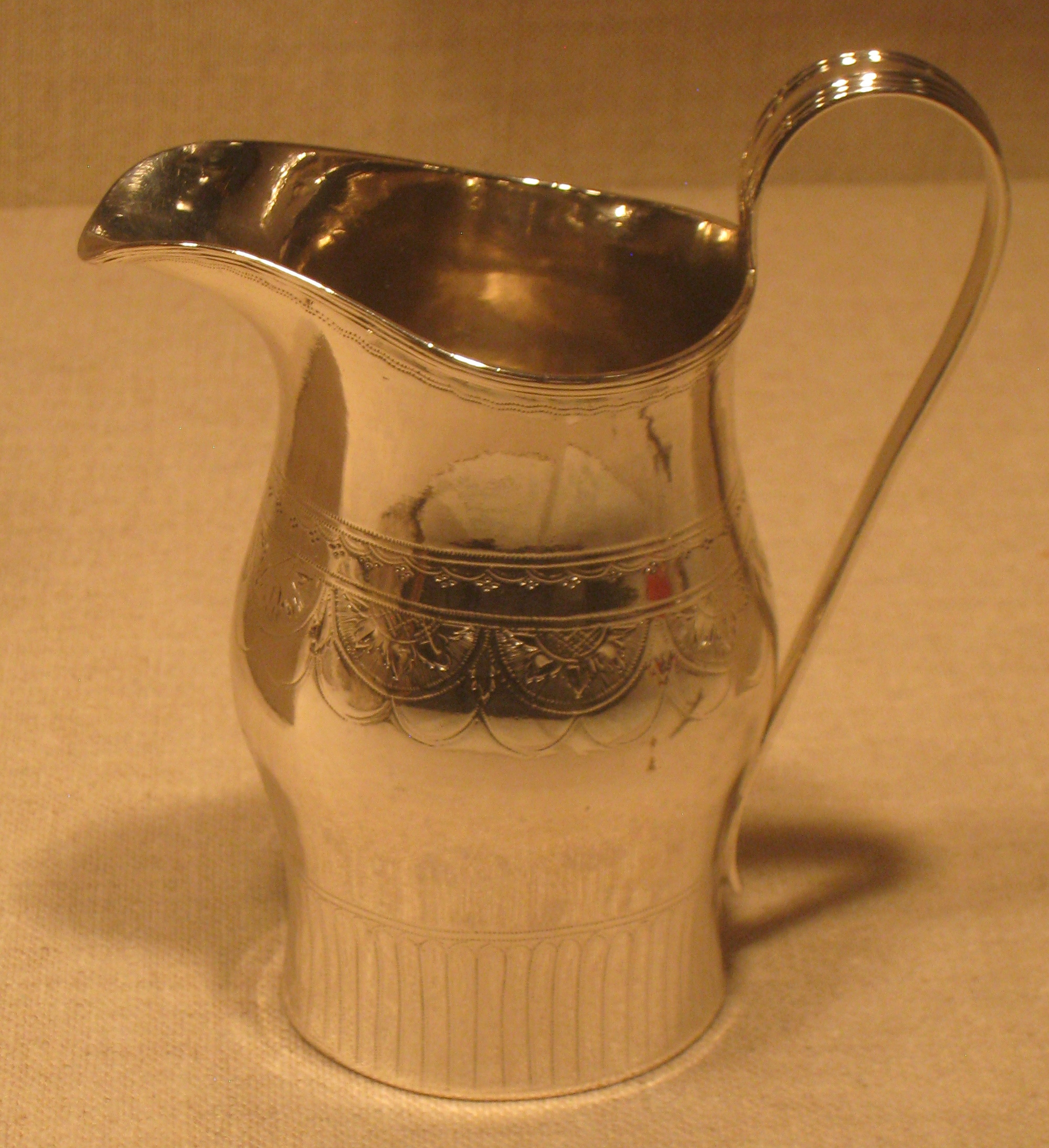 Creampot, circa 1800, Paul Revere silver collection, Worcester Art Museum, Worcester, Massachusetts, USA. The museum permits photography and does not restrict usage of the photographs. Made by American silversmith Paul Revere (1735-1818).